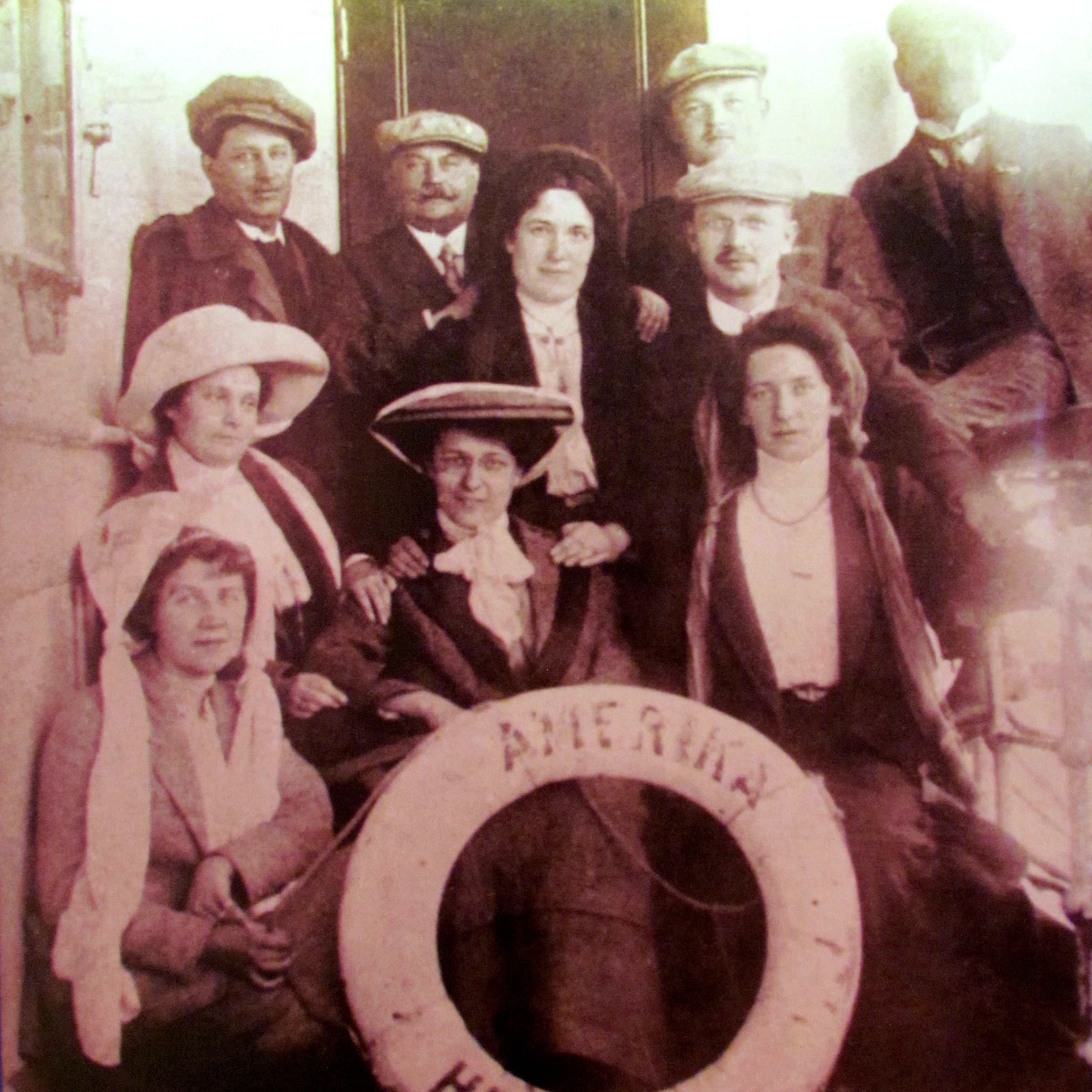 Theater company The Servian National Theater on his trip to U.S.1911